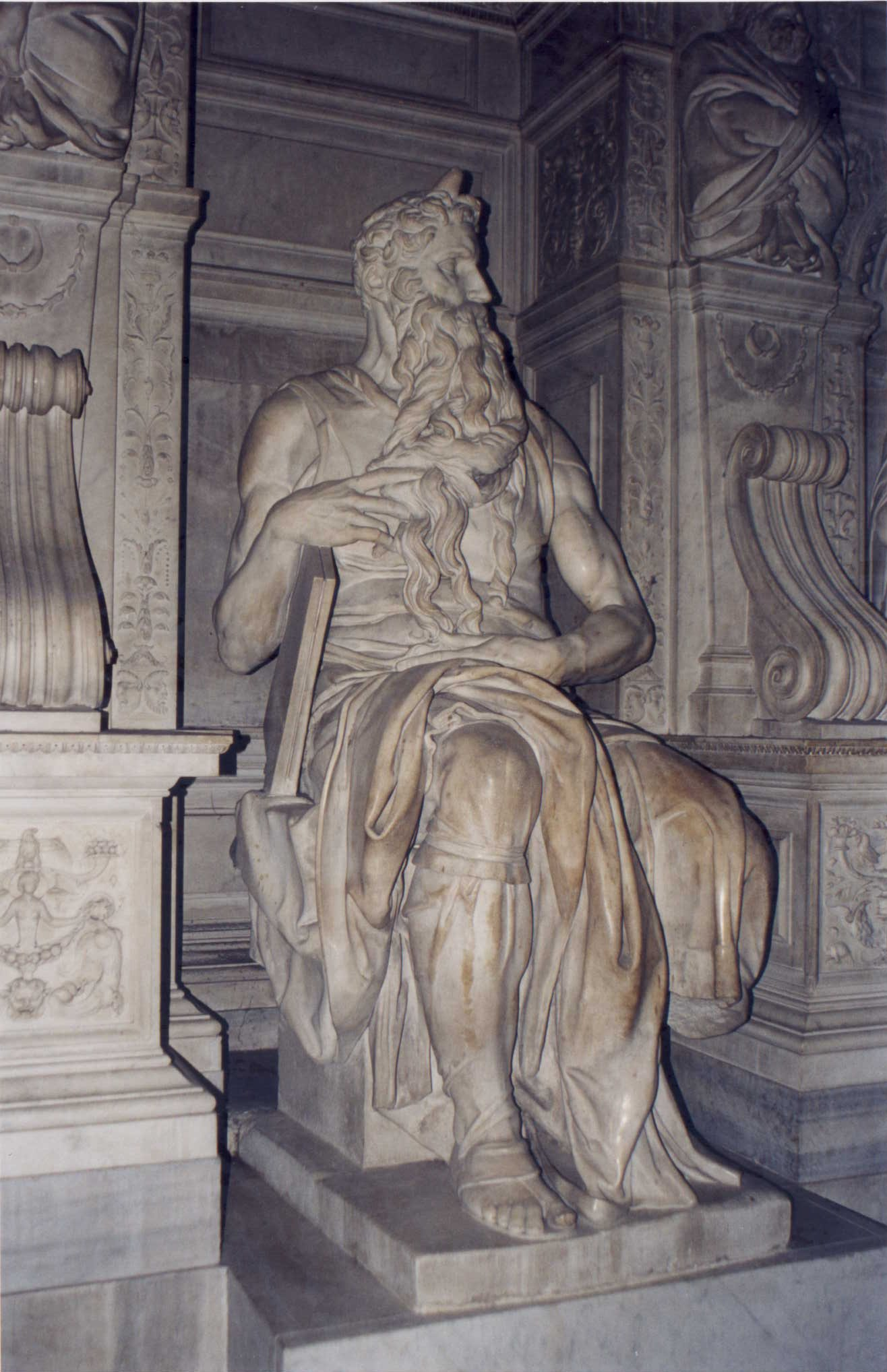 Photo of Moses, a sculpture by Michelangelo Buonarroti